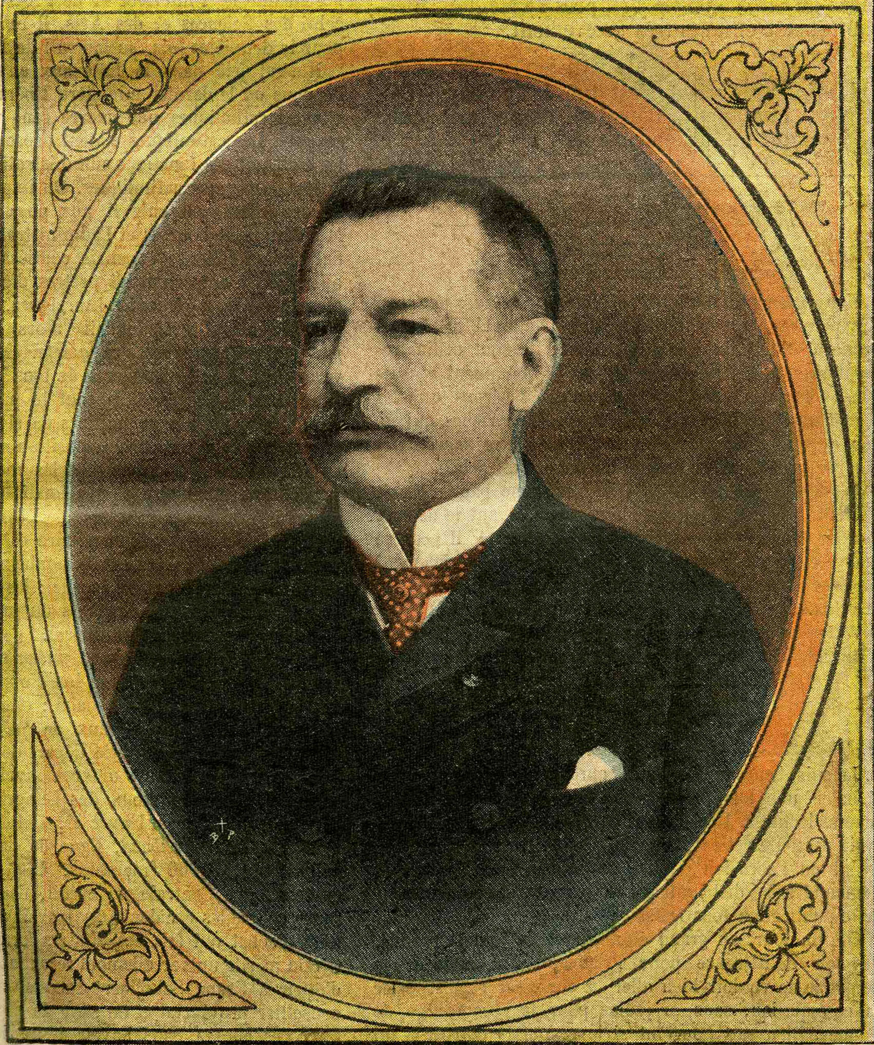 Begian politician Frans Schollaert